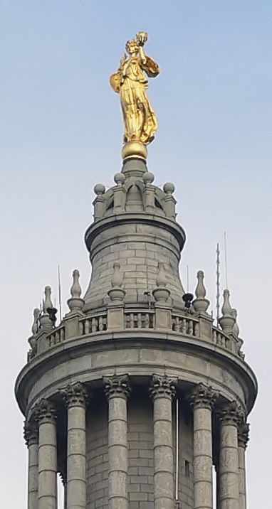 Cropped version of Civic Fame Statue, on the top of the Municipal Bulding, Manhattan, New York. Version cropped and originally uploaded to English Wikipedia as Civic Fame.jpg by Uris.Municipal Building